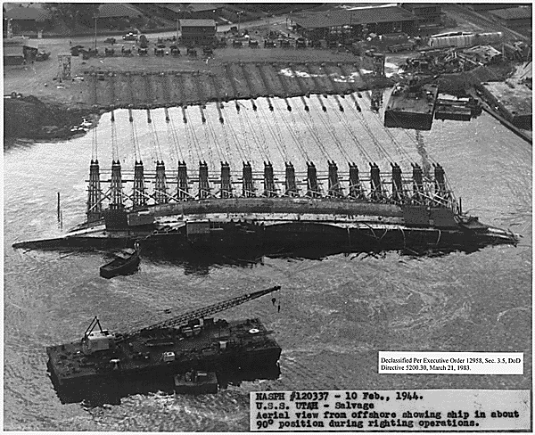 The USS Utah being salvaged